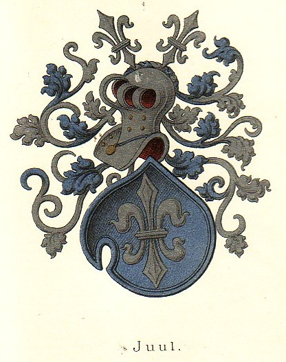 Coat of arms of the Juul family